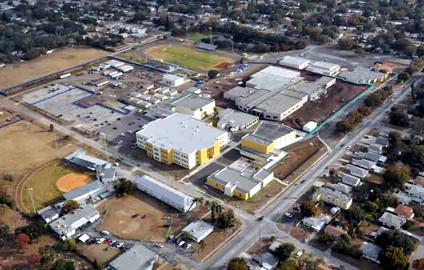 Aerial view of the Boca Ciega High School campus undergoing a rebuild